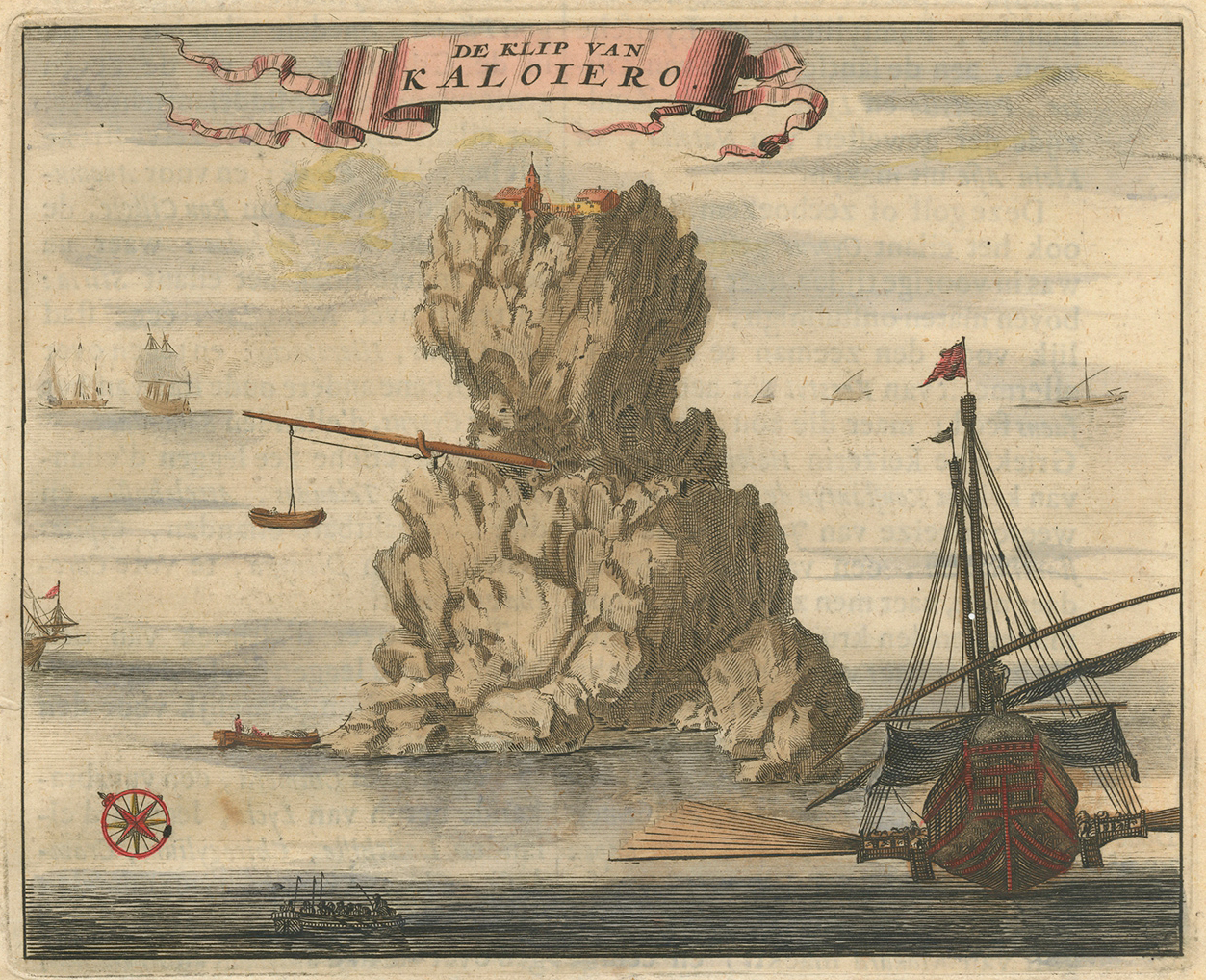 Encoloured engraving showing Klip Kaloiero, anders Panaia, detail of page 84 from Olfert Dapper’s Book Naukeurige Beschryving der Eilanden in de Archipel der Middelantsche Zee, Cyprus, Rhodes, Kandien, Samos, Scio, Negroponte, Lemnos, Paros, Delos, Patmos, en andere, in groten getale, Amsterdam: Wolfgangh 1688.